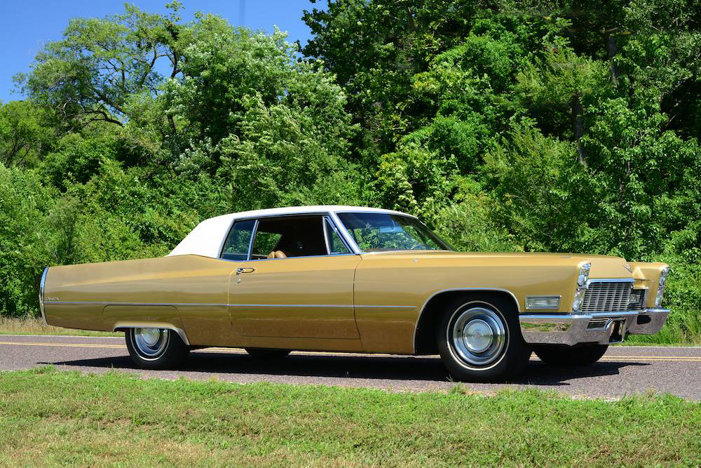 This is a picture of a vehicle (name of it is on the file name).